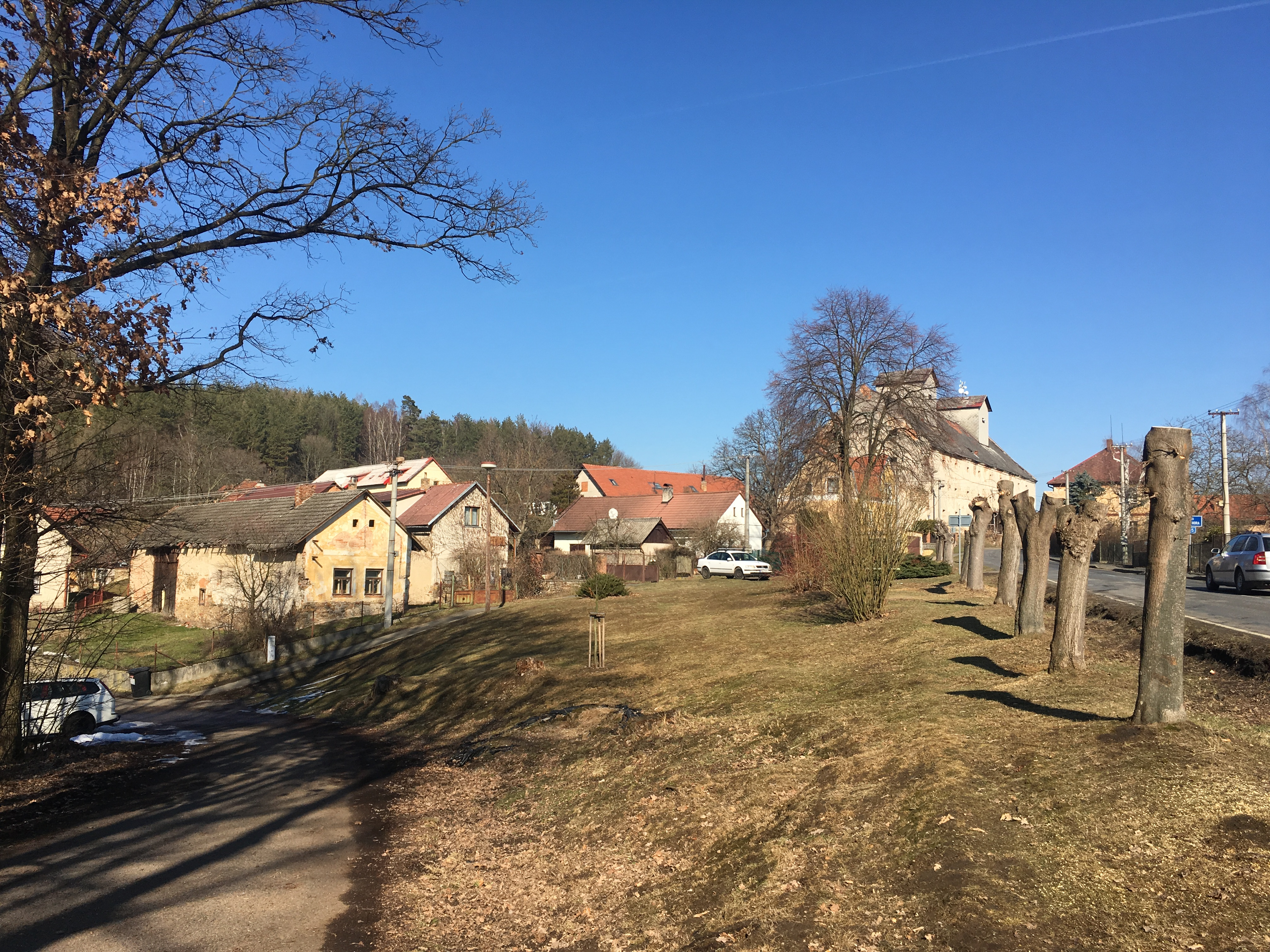 vesnice Nechyba